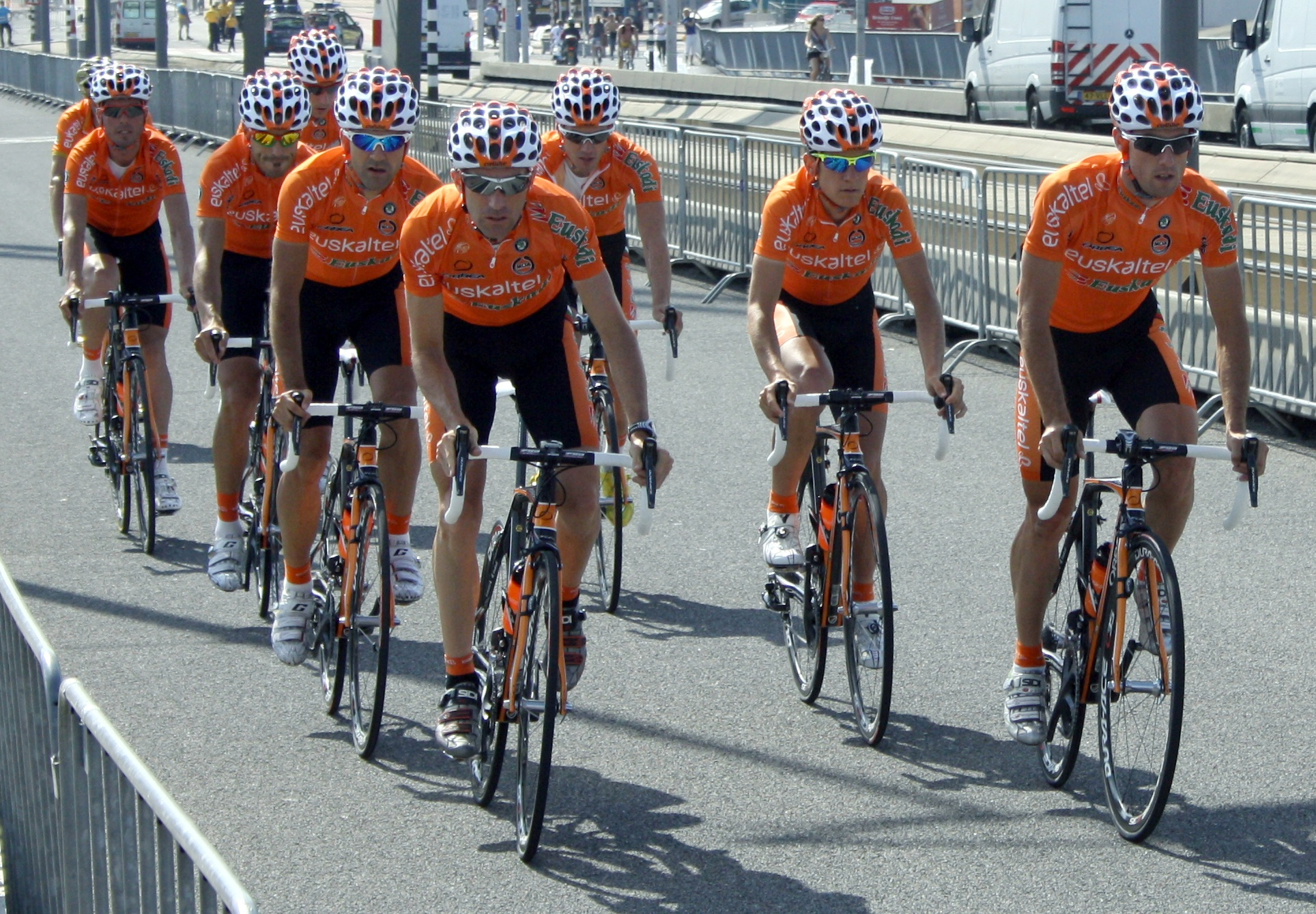 Euskaltel-Euskadi training for the prologue of the 2010 Tour de France in Rotterdam